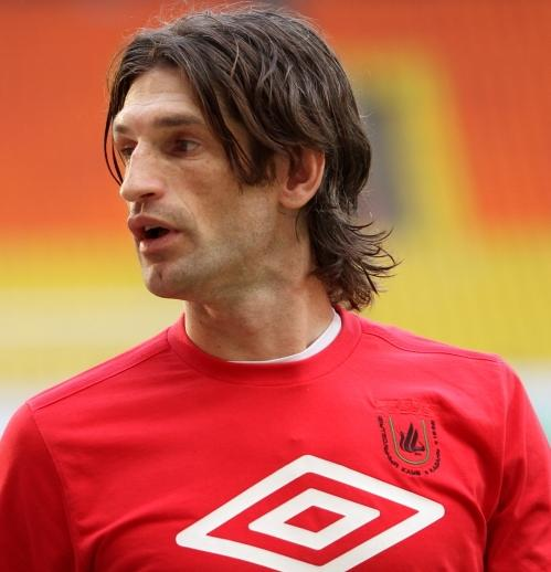 Roman Sharonov with FC Rubin Kazan.